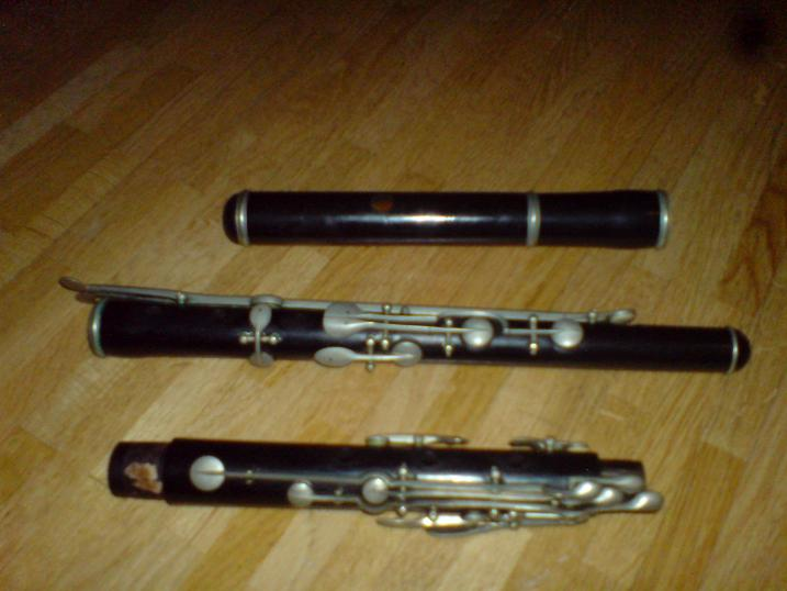 romantic 14 keys flute